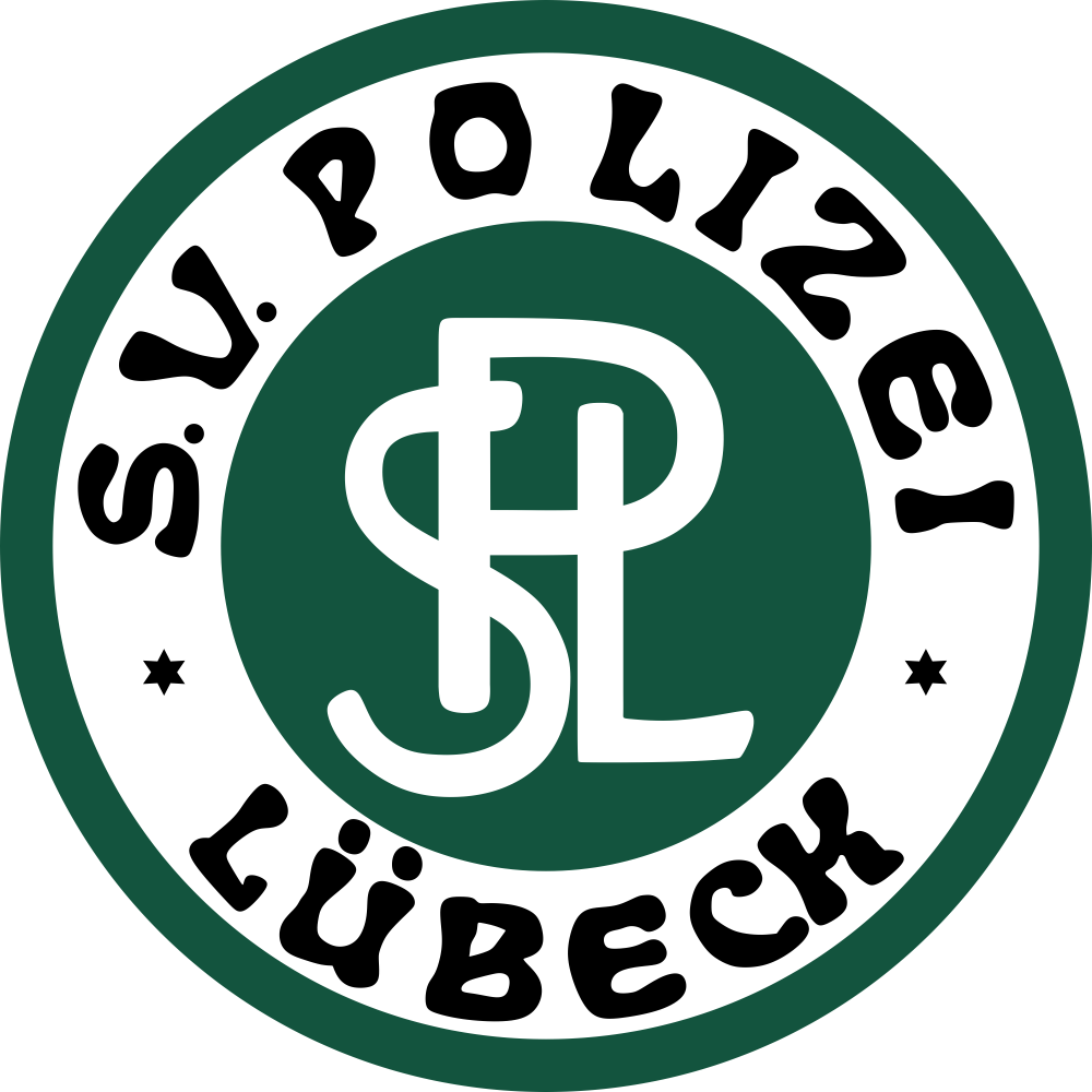 Logo of former german sportclub SV Polizei Lübeck (1921 - 1945)